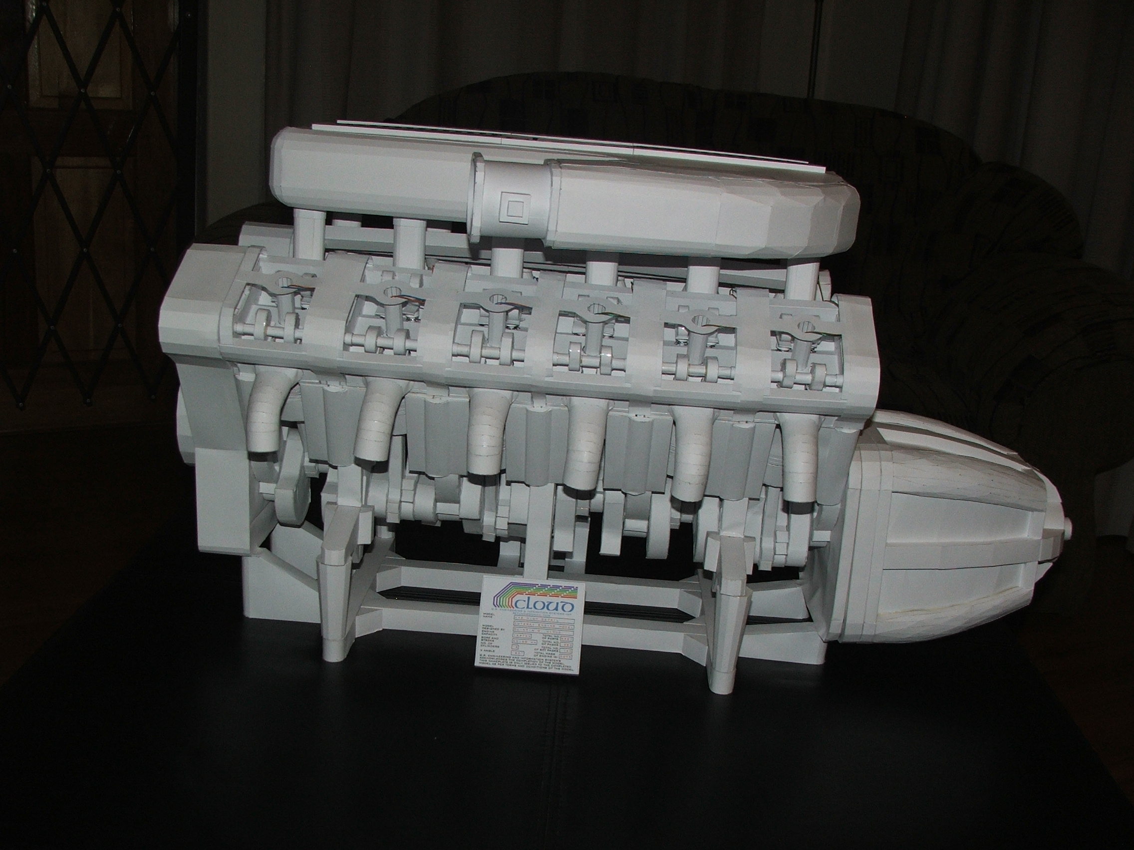 Cut away model of a V12 engine made from sheets of paper.